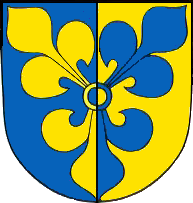 Coat of Arms of Börßum